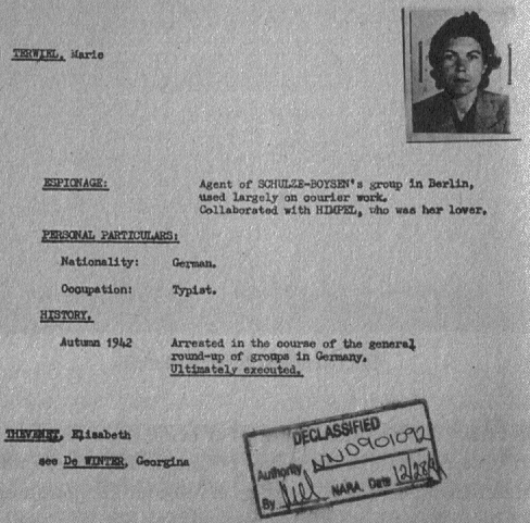 Maria Terwiel (June 7th, 1910 in Boppard – August 5th, 1943 in Berlin-Plötzensee, executed) was a German resistance fighter in the Third Reich. She belonged to the Red Orchestra resistance group.